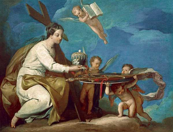 Allegory of the Civil Power